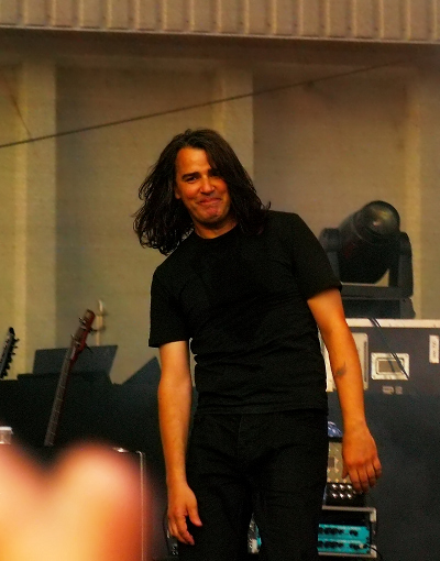 Jean-Yves Thériault